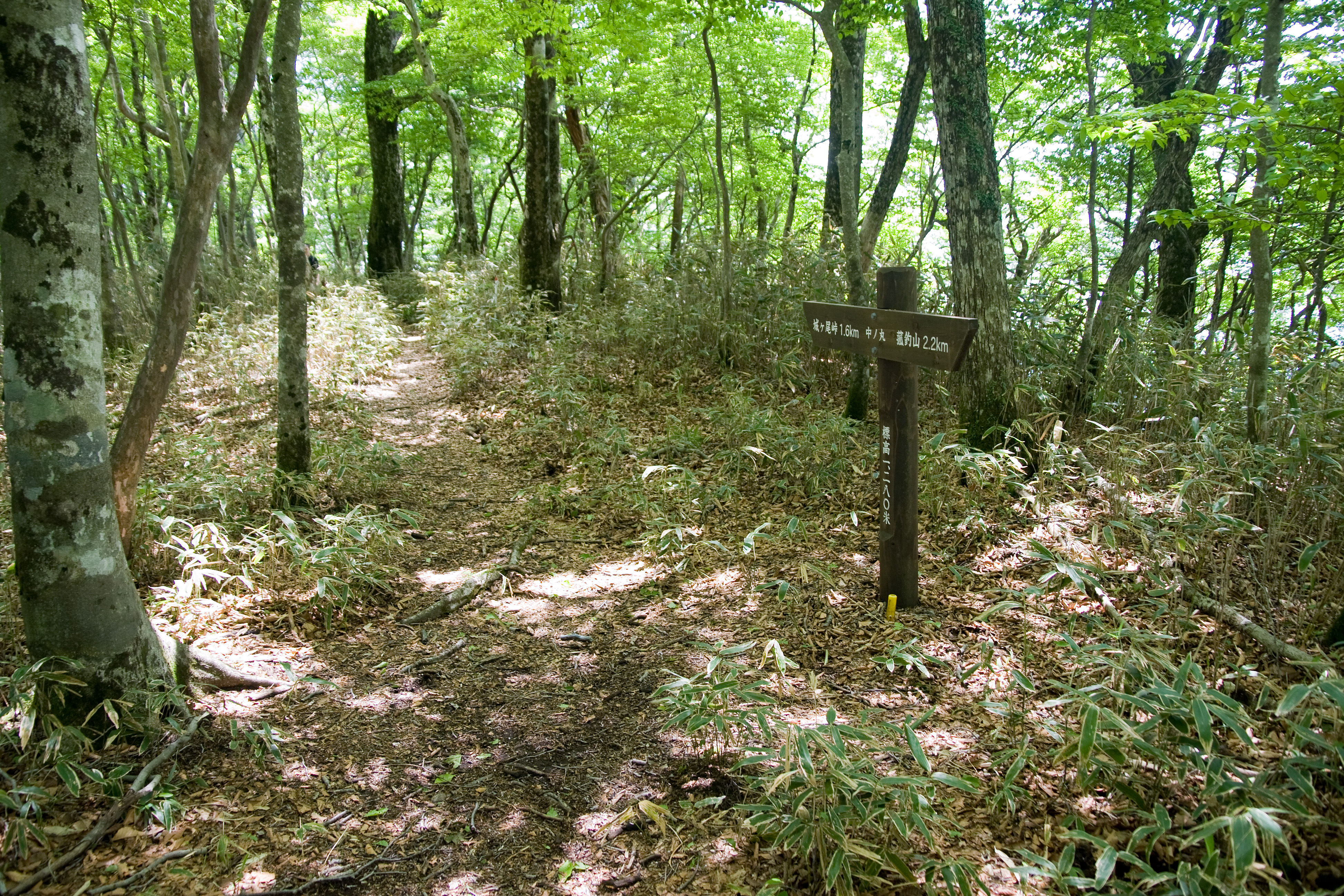 The summit of Mt.Nakanomaru in Mts.Tanzawa, Kanagawa and Yamanashi Pref, Japan.